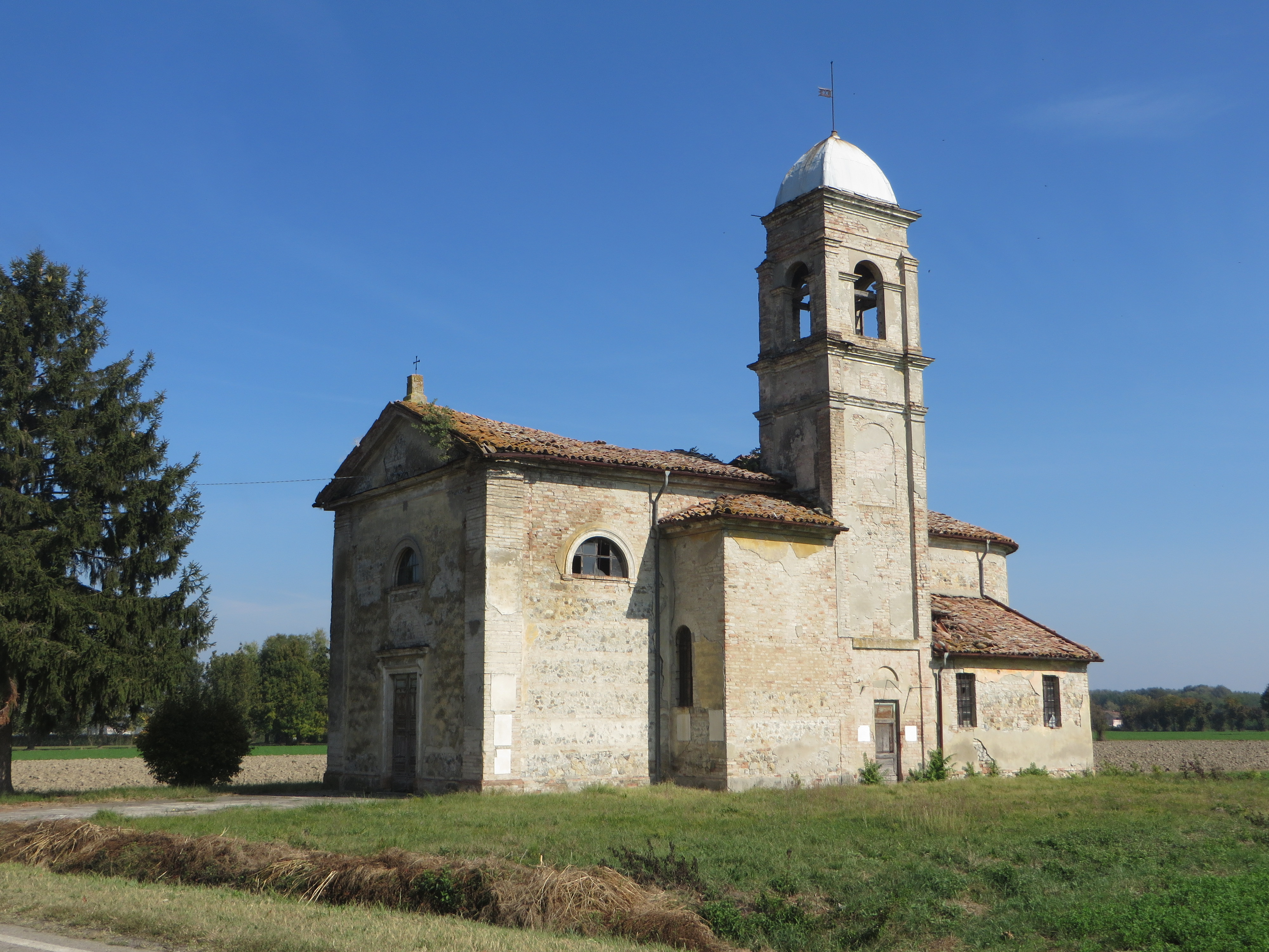 San Secondo Parmense Ronchetti Church1